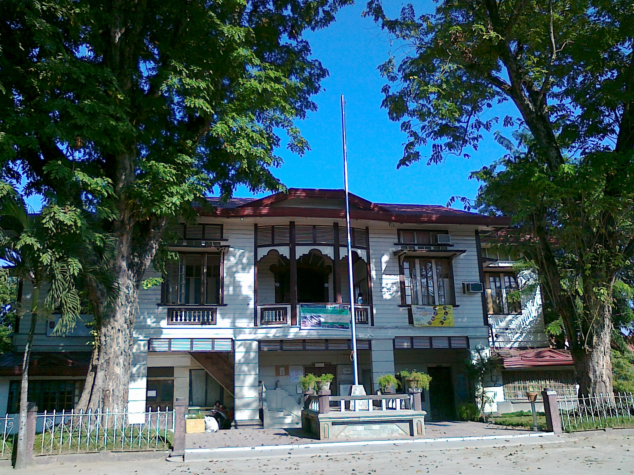 Municipal Hall Of Initao